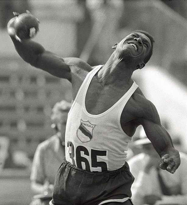 Héctor Thomas at the Rome Olympics